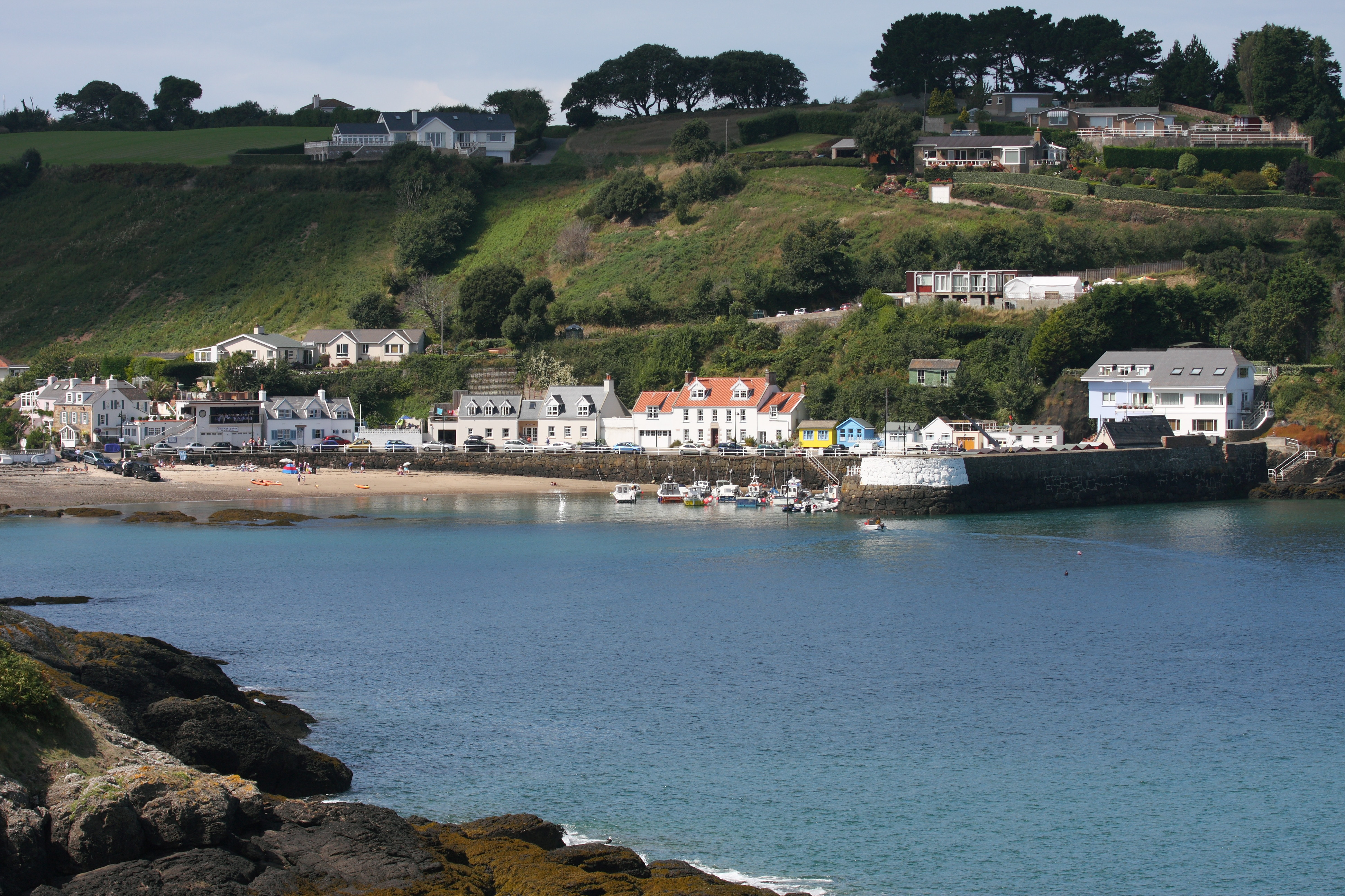 Rozel, Jersey, Channel Islands.